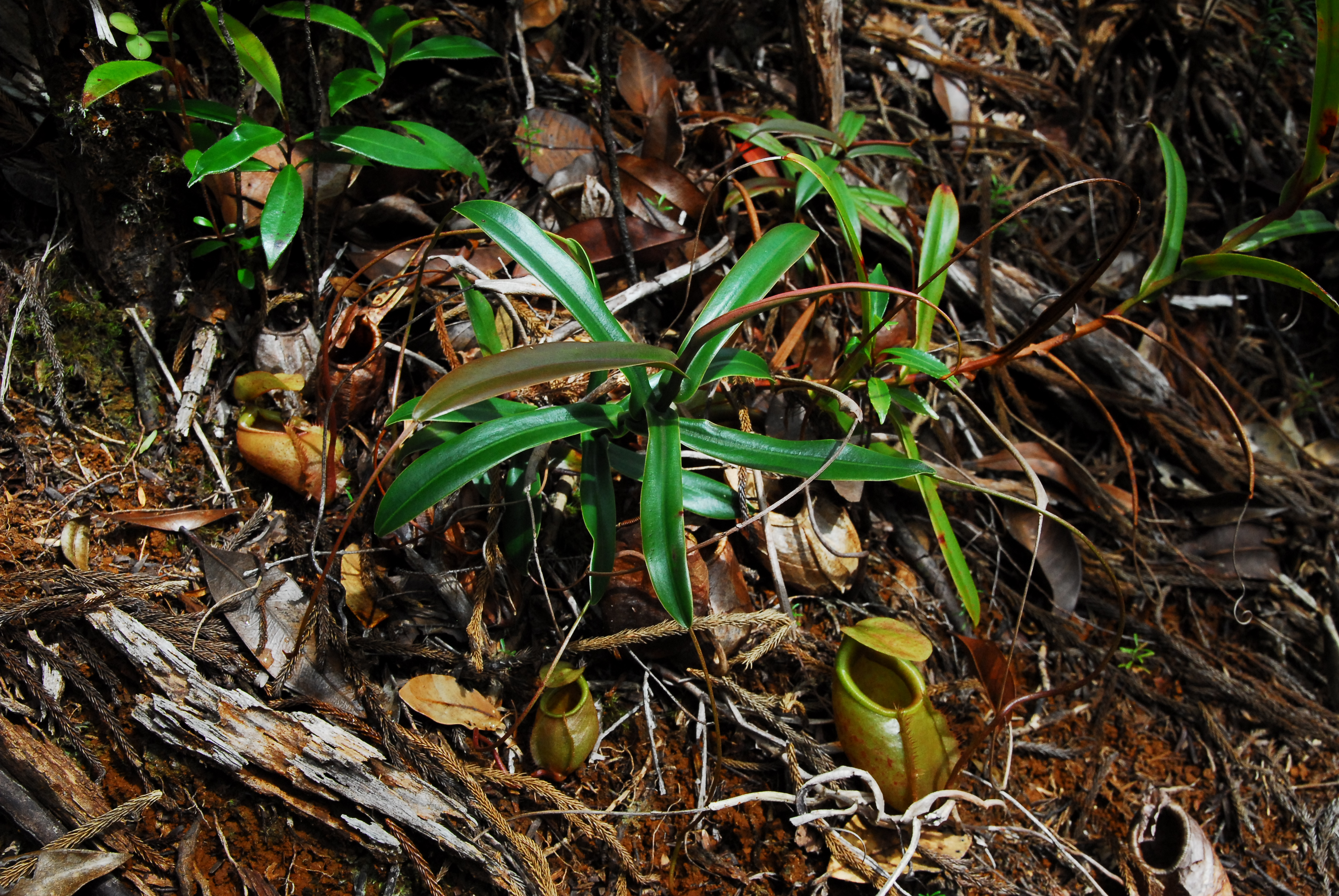 Nepenthes bellii rosette plant, Dinagat Island, Philippines